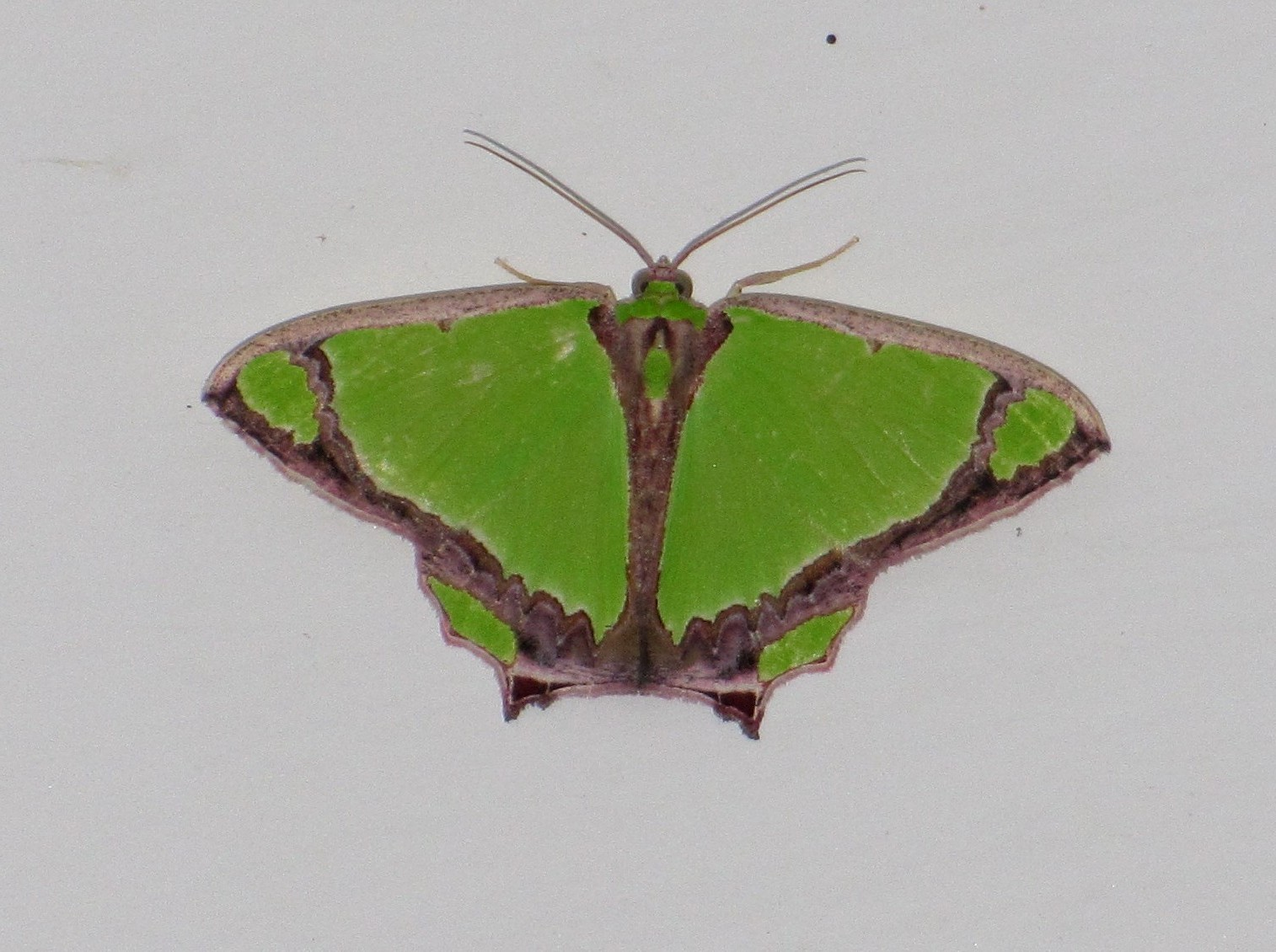 Agathia laetata (Fabricius, 1794) from Mangalore Family : Geometridae Subfamily: Geometrinae Genus : Agathia Author : Fabricius, 1794